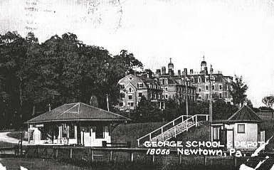 The lower left corner is the former George School Station in Newtown, PA.